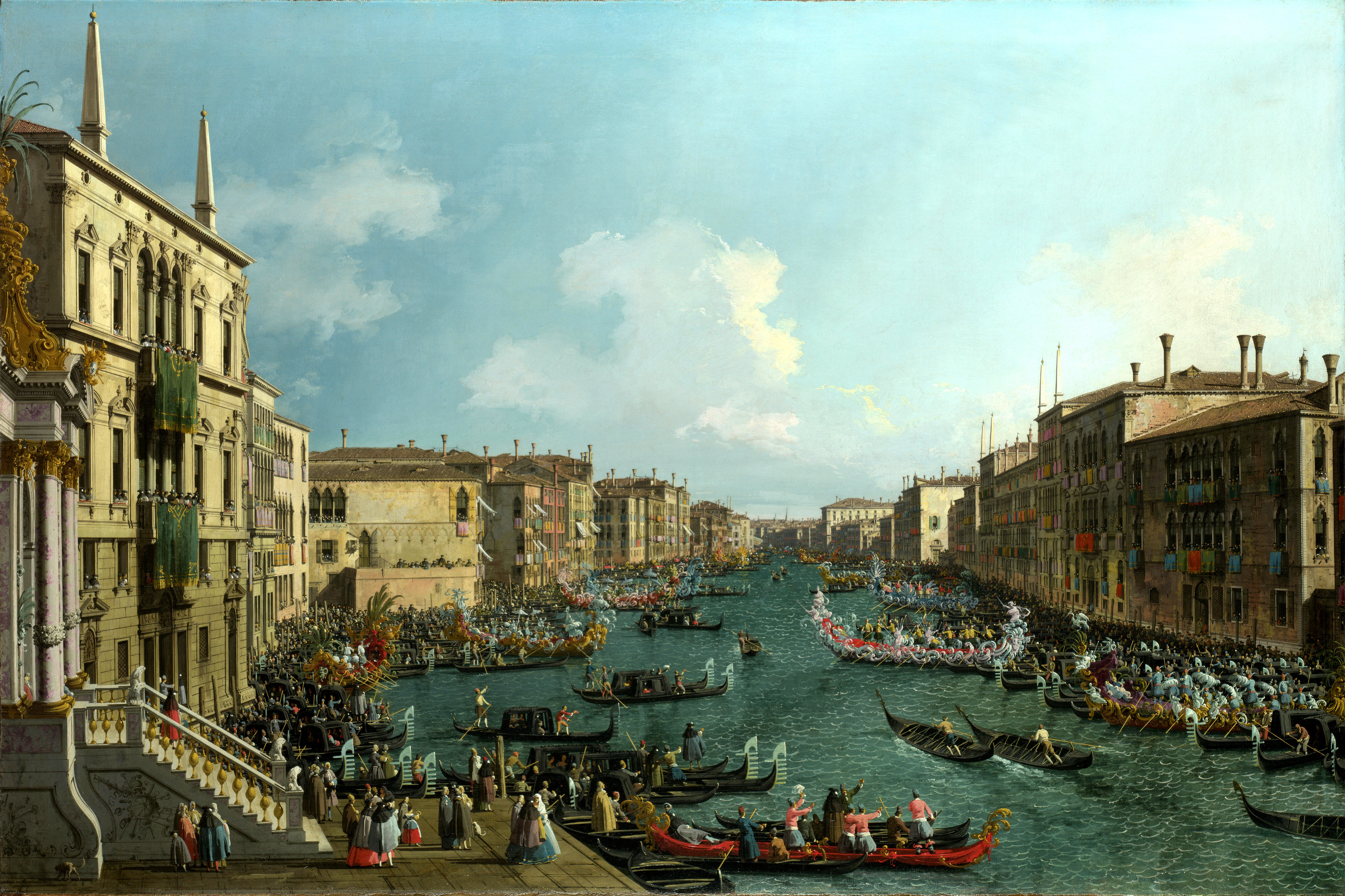 Art series:Two Venetian Ceremonial Scenes; Regatta held during carnival season on 2 February, the Feast of the Purification of the Virgin, as suggested by the numerous spectators wearing the carnival ‘bauta’ of a white mask and black cape